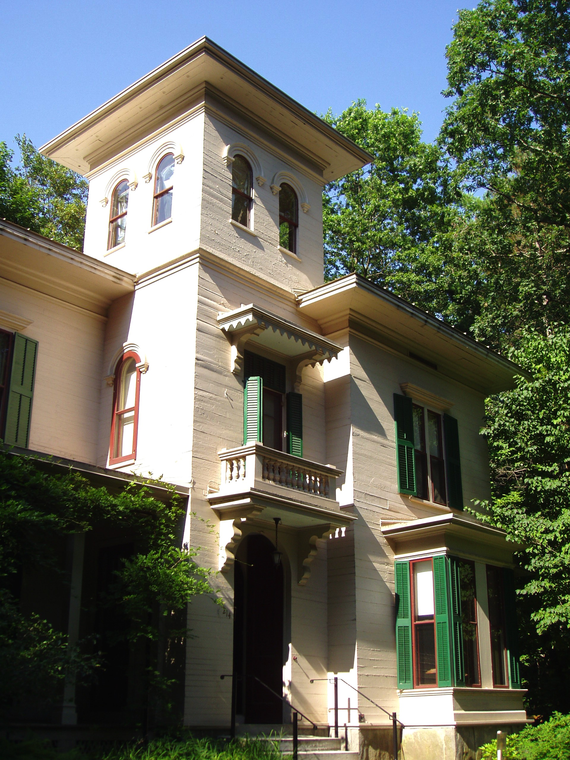 Austin Dickinson house, Amherst, Massachusetts. View of facade from left.